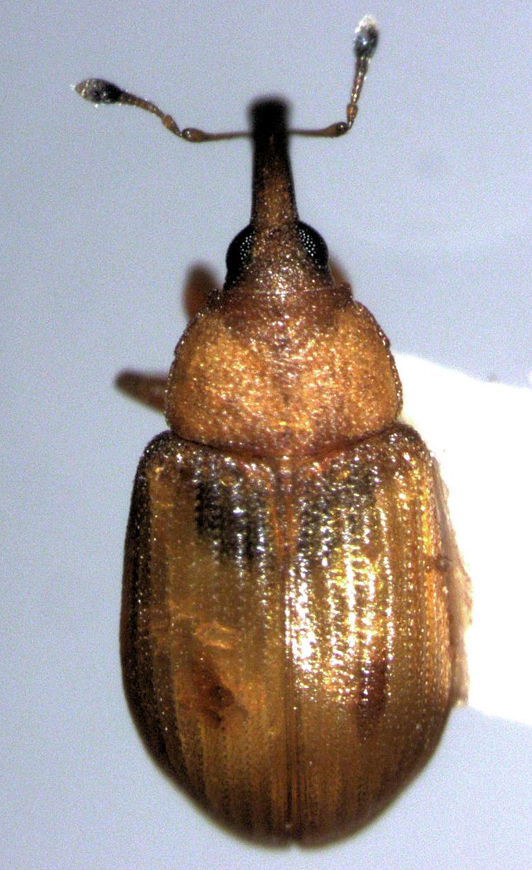 adult Derelomus sp., length (excluding rostrum) about 3 mm